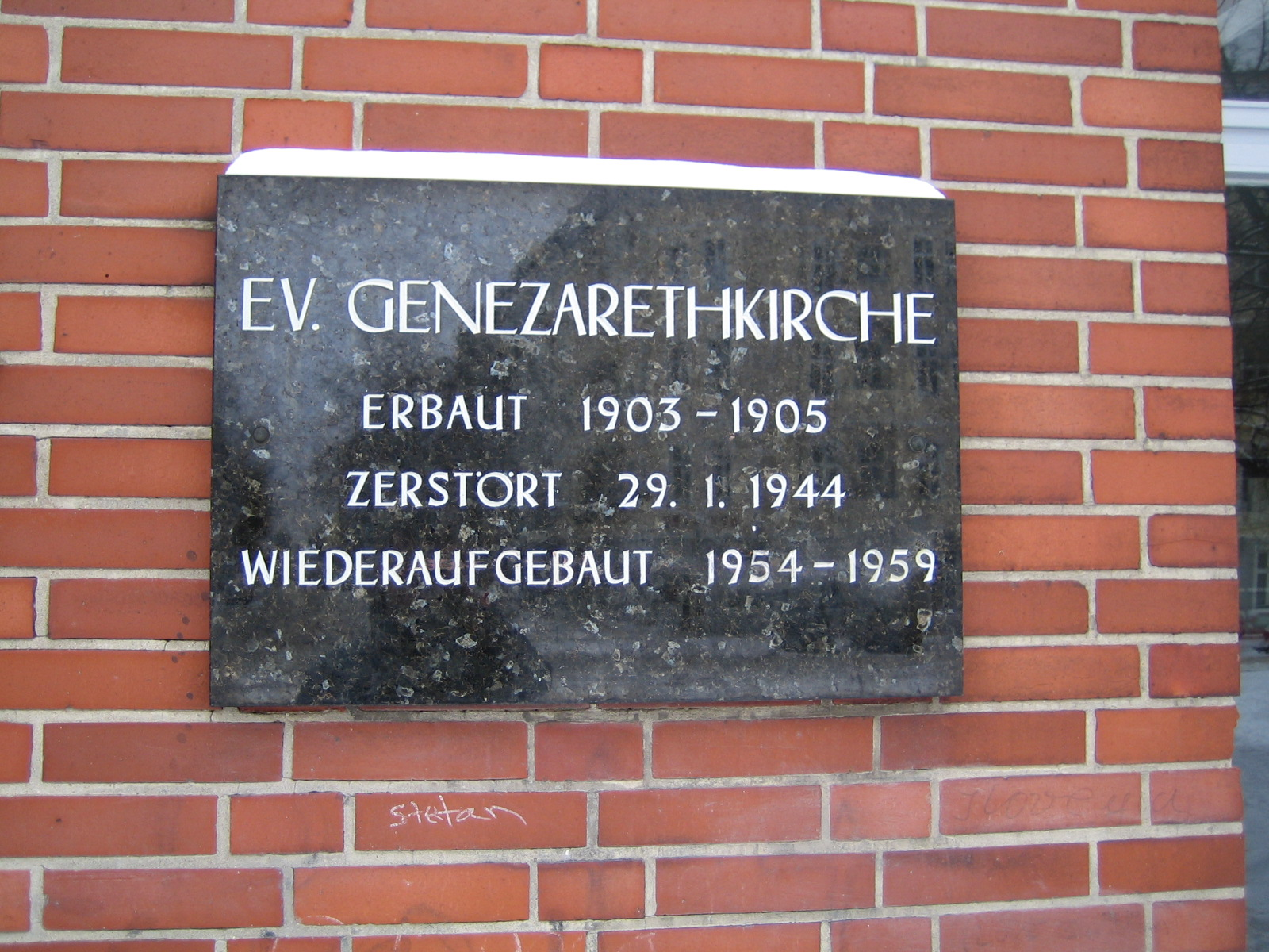 Think of board on the Genezareth-Church in Berlin-Neukölln